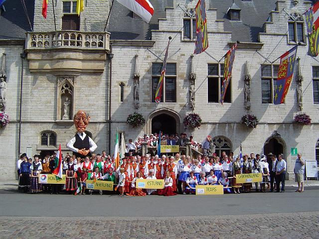 Festival Reynout